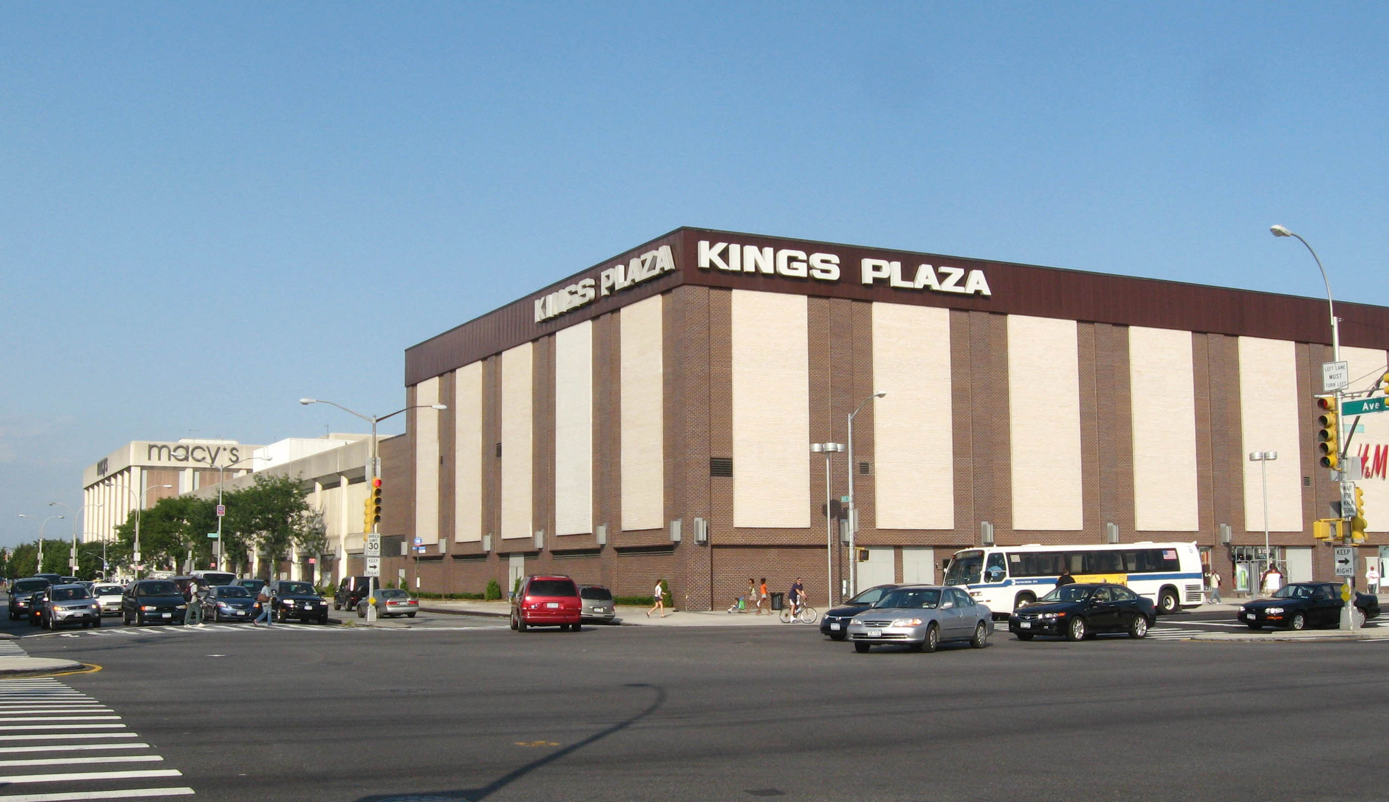 Looking east across Flatbush Avenue and down Avenue U at Kings Plaza on a sunny afternoon